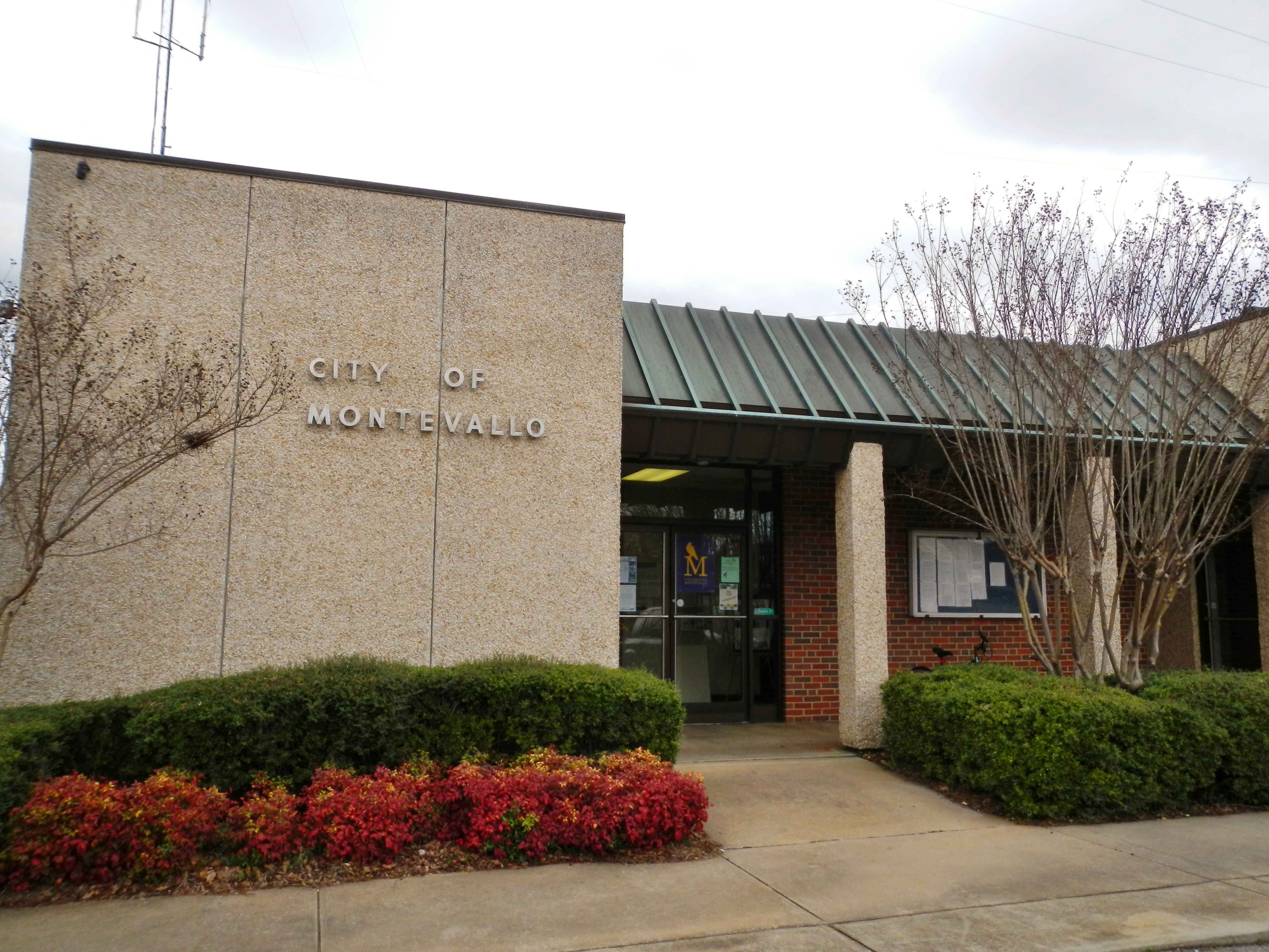 This is a photograph of the City Hall in Montevallo, Alabama.